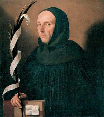 Portrait of a Dominican, Presumed to be Girolamo Savonarola